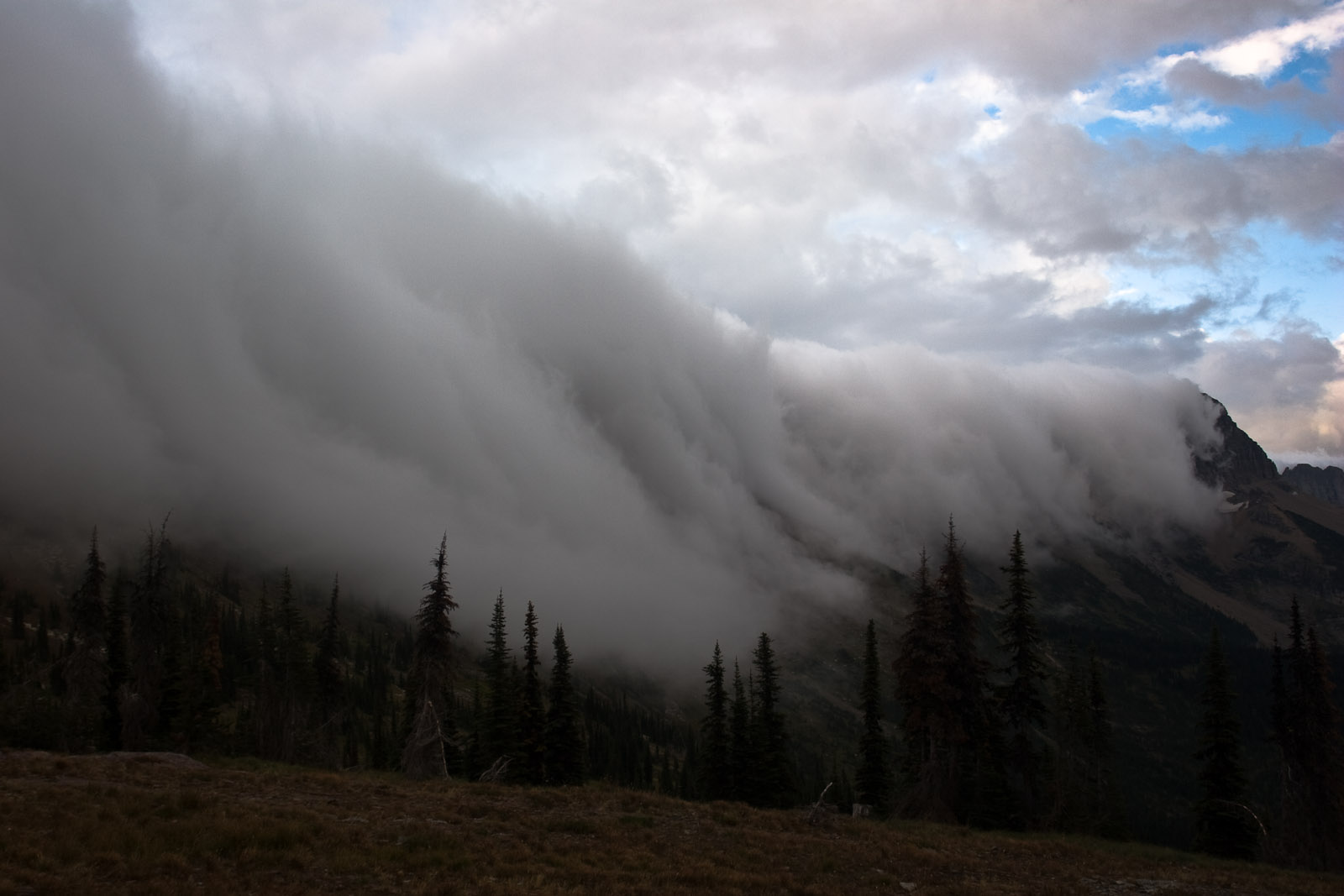 Clouds Coming Over the Garden Wall